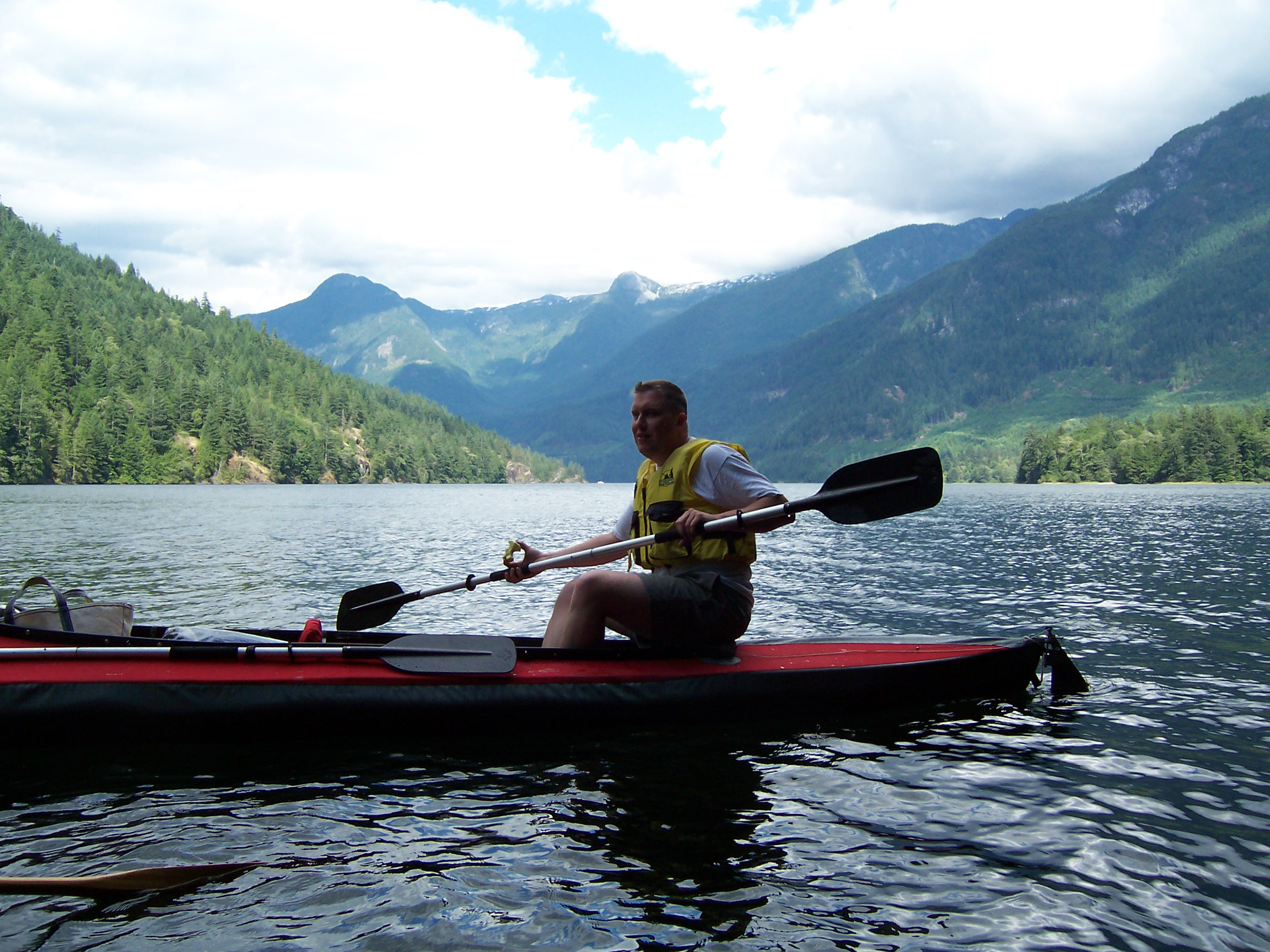 A kayaker navigates the 4 knot current in Narrows Inlet